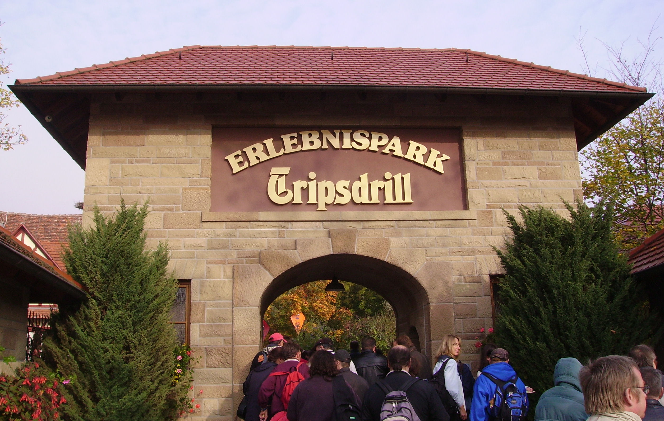 leisure park Tripsdrill near Cleebronn in southern Germany